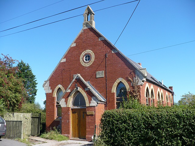 Former Congregational Chapel, Goldcliff, Newport, Monmouthshire. Goldcliff Congregational (later United Reformed) Chapel was built 1840 and rebuilt 1900. It is now a private hosue.